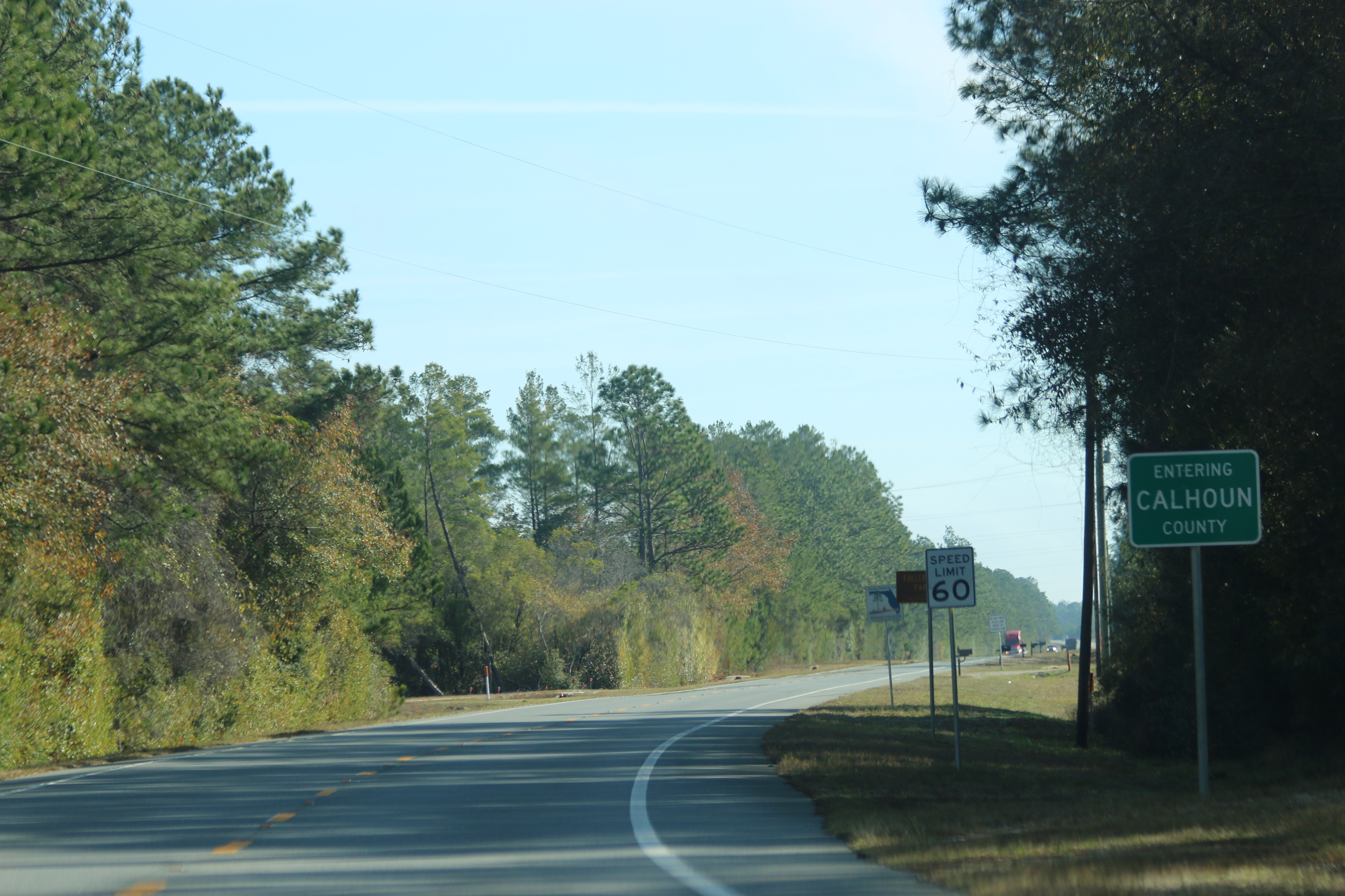 The sign for Calhoun County, Florida on State Road 20.